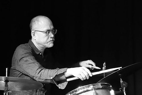 Yasuhiro Yoshigaki in Aarhus, Denmark 2015